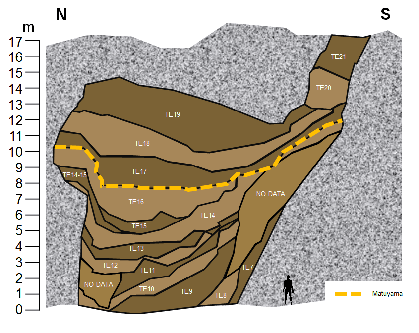 Stratigraphic sequence of the Sima del Elefante